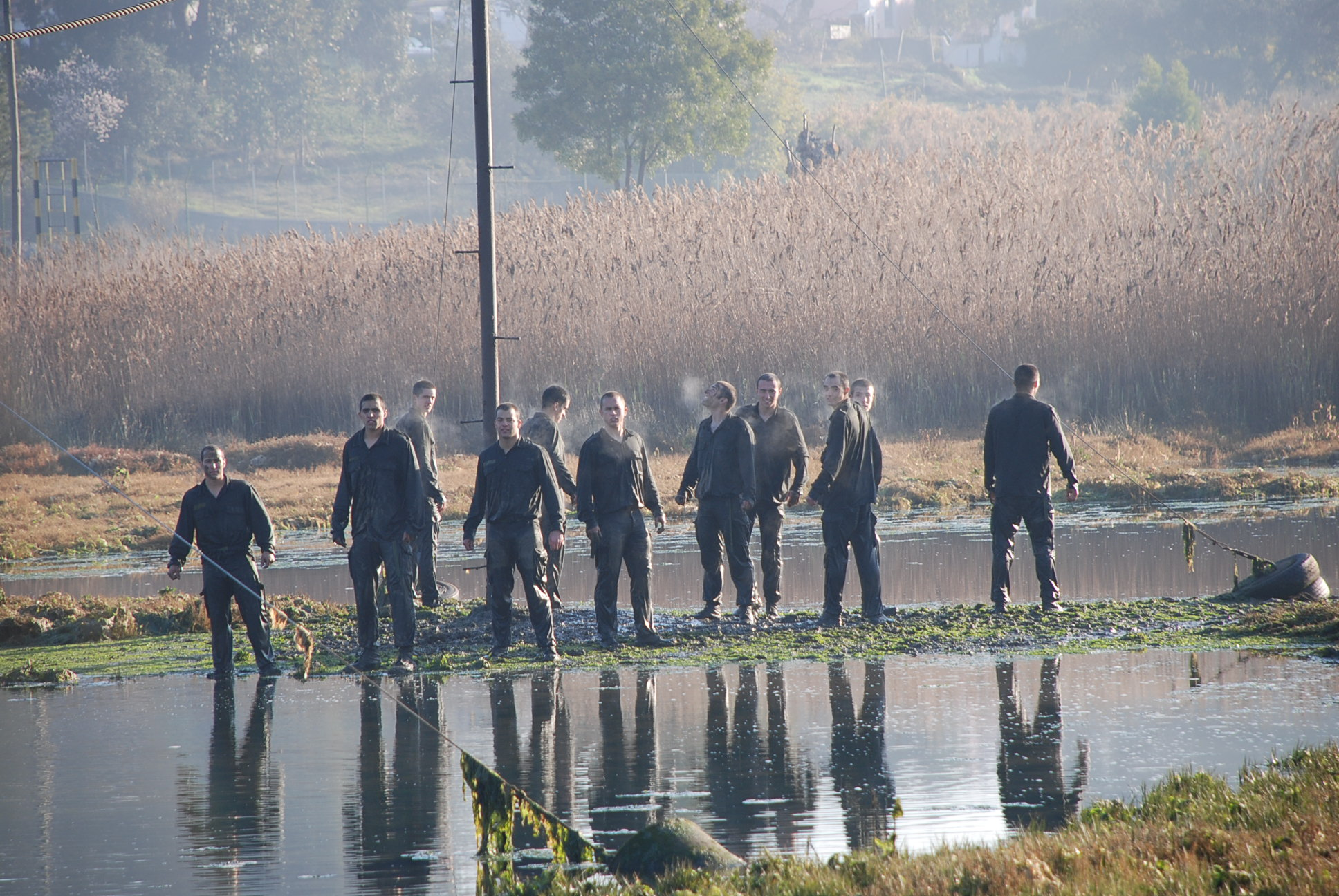 Portuguese Marines recruits at Marines School (Escola de Fuzileiros)